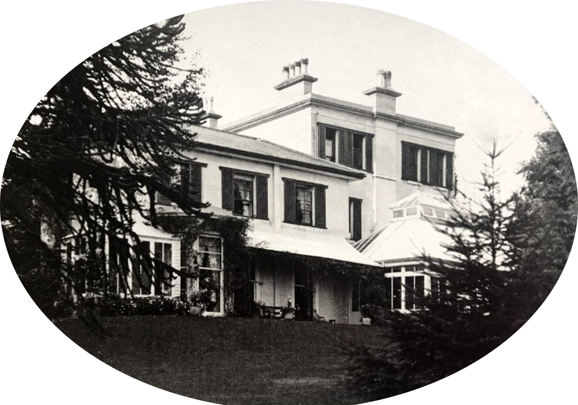 Ashfield, Torquay circa 1900